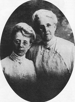 Photograph of May Anderson and Louie B. Felt, Mormon leaders at the turn of the 20th century.